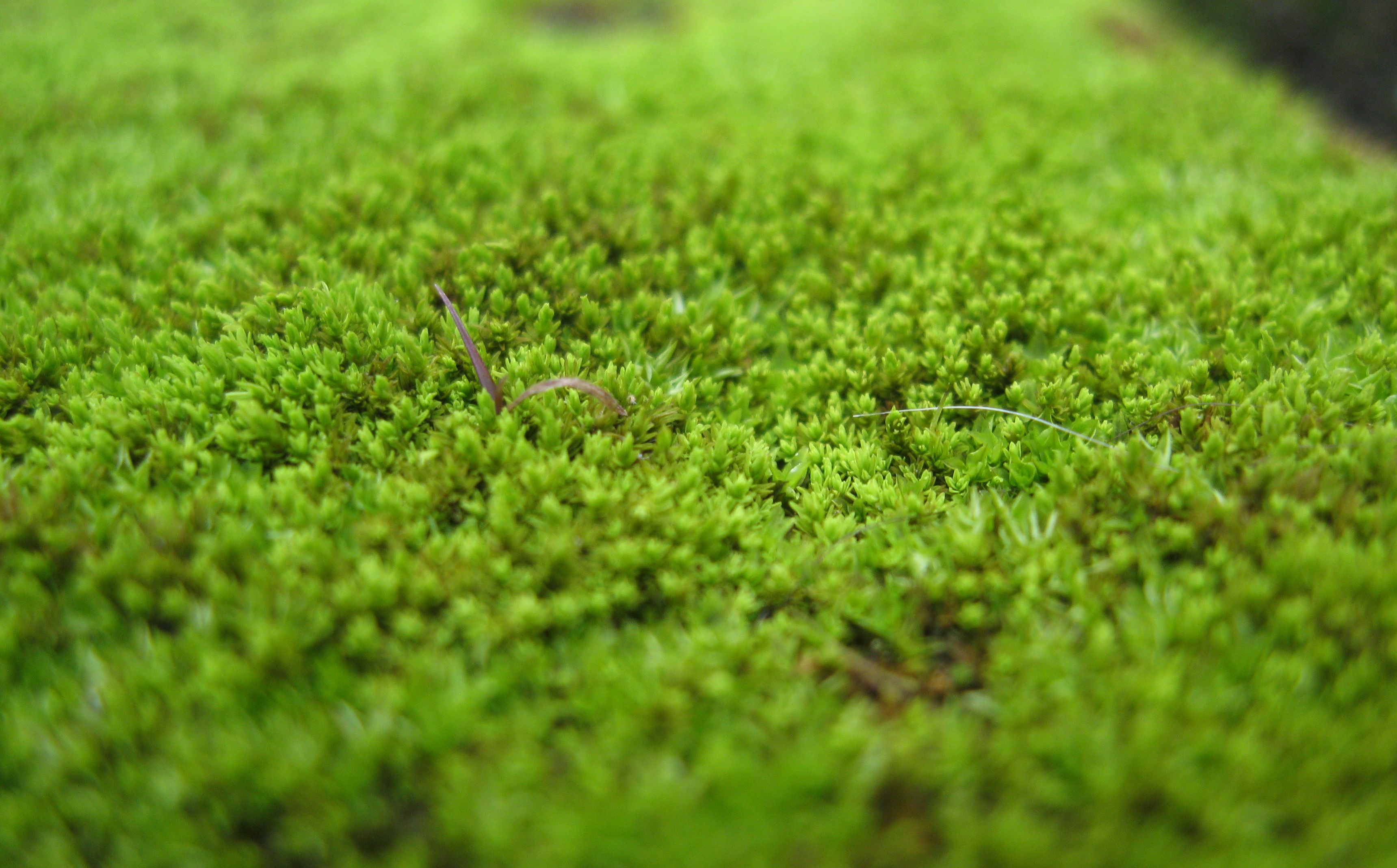 Common bryophytes found in Indonesia